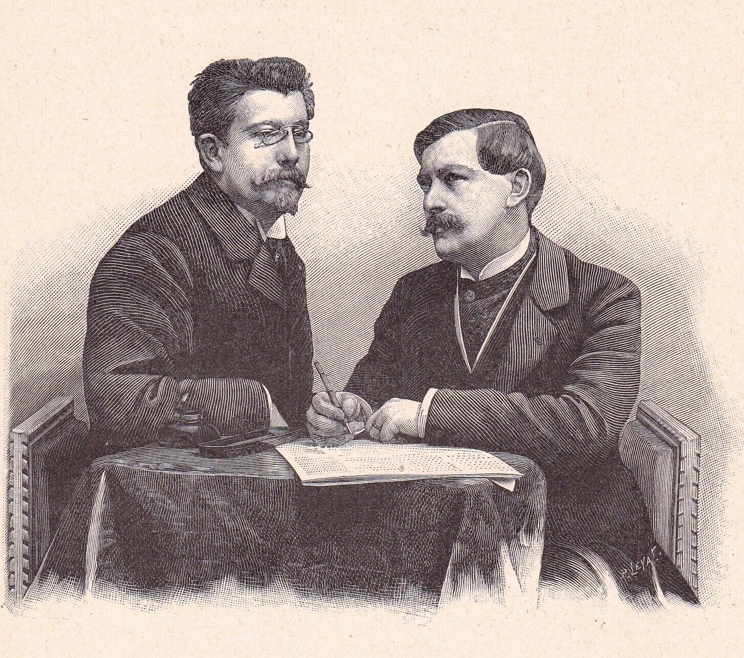 French writers Paul (1860-1918) and Victor Margueritte (1866-1942)